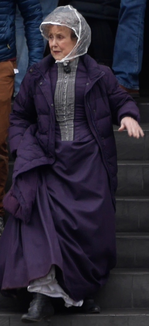 Una Stubbs pictured in London filming Sherlock